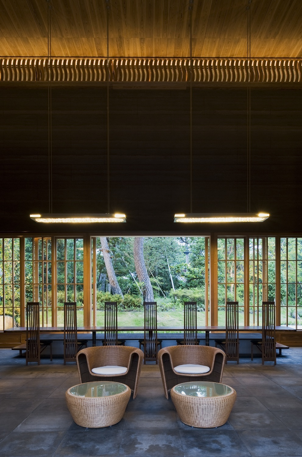 Works of KAWAKAMI Motomi 016-2008